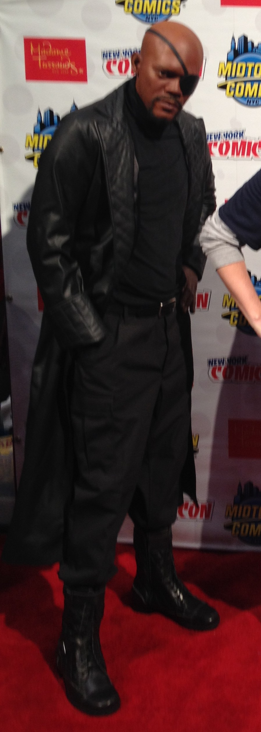 Me at NYCC